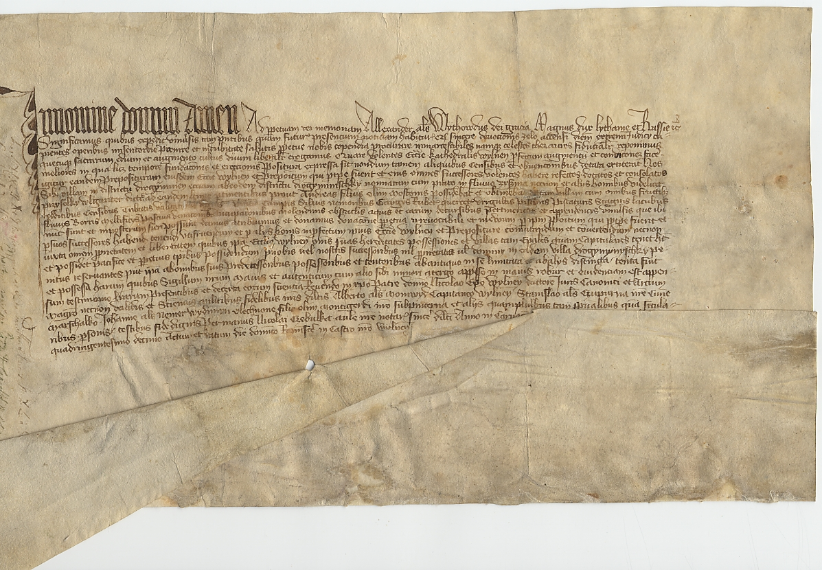 Edict of Vytautas the Great. Issued 1410- 02-16. Latin language